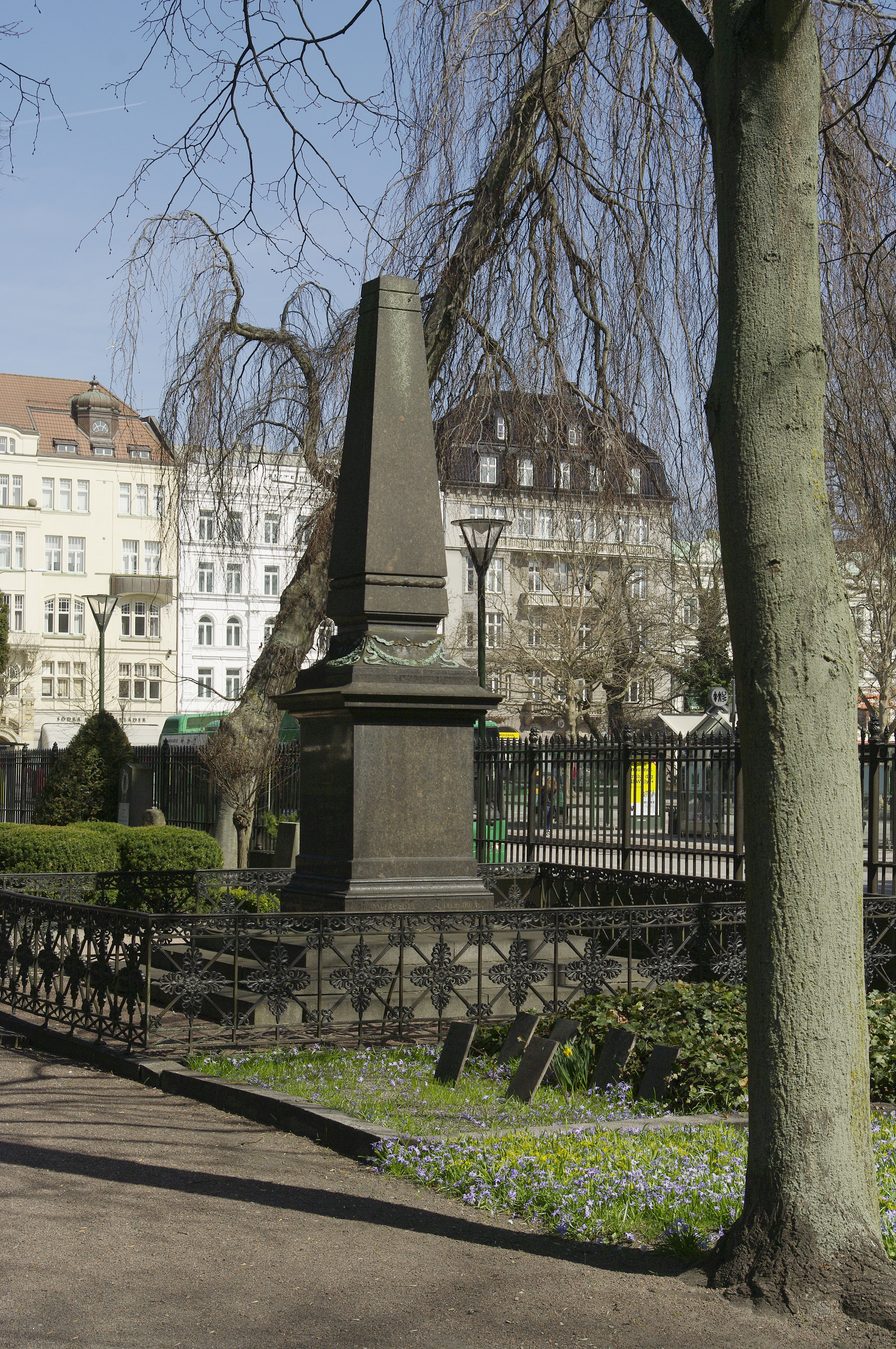 F H Kockums gravestone Malmö Sweden